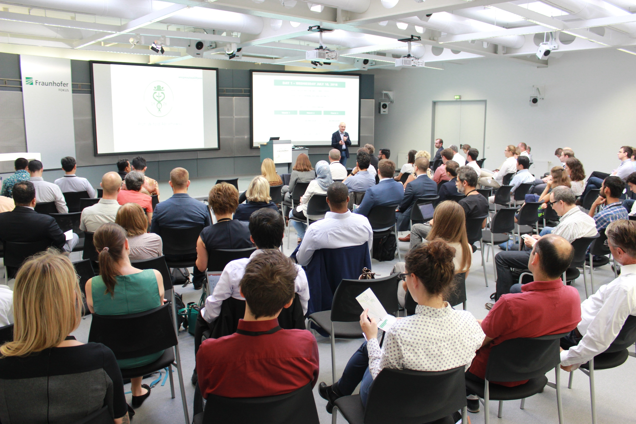 21st International Conference on Business Information Systems